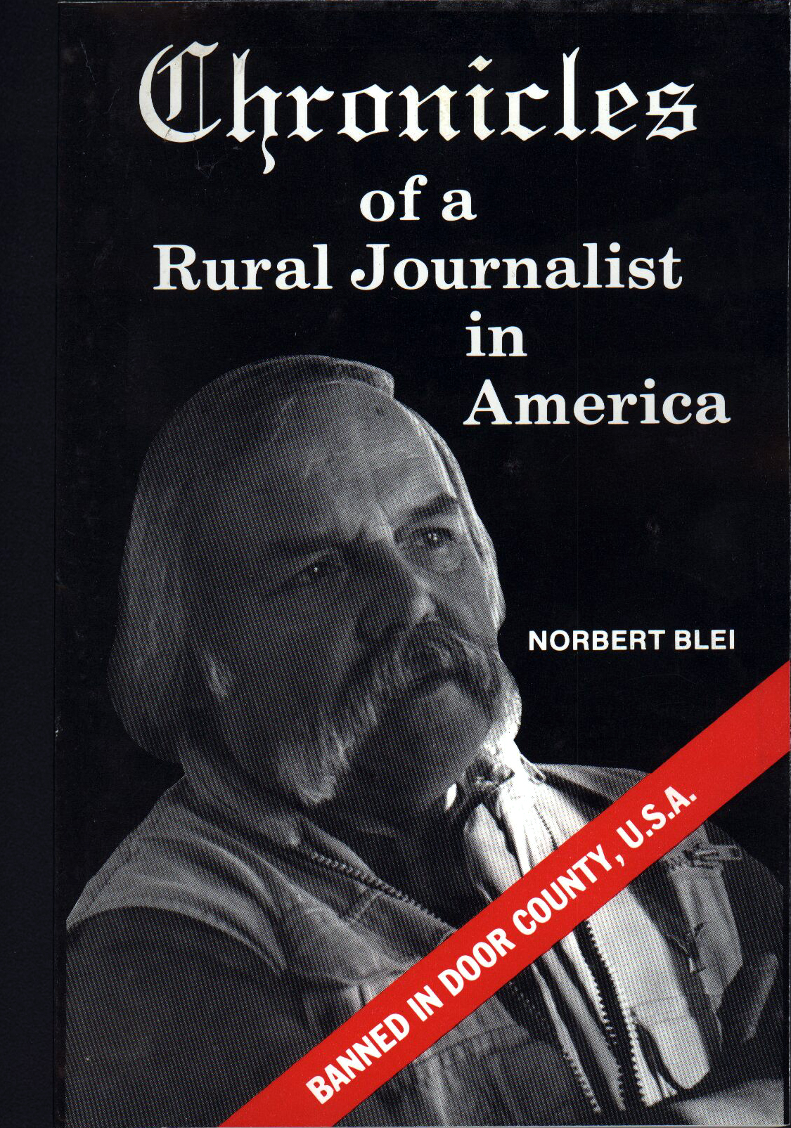 cover of Chronicles of a Rural Journalist in America, a 1990 non-fiction book by Norbert Blei.